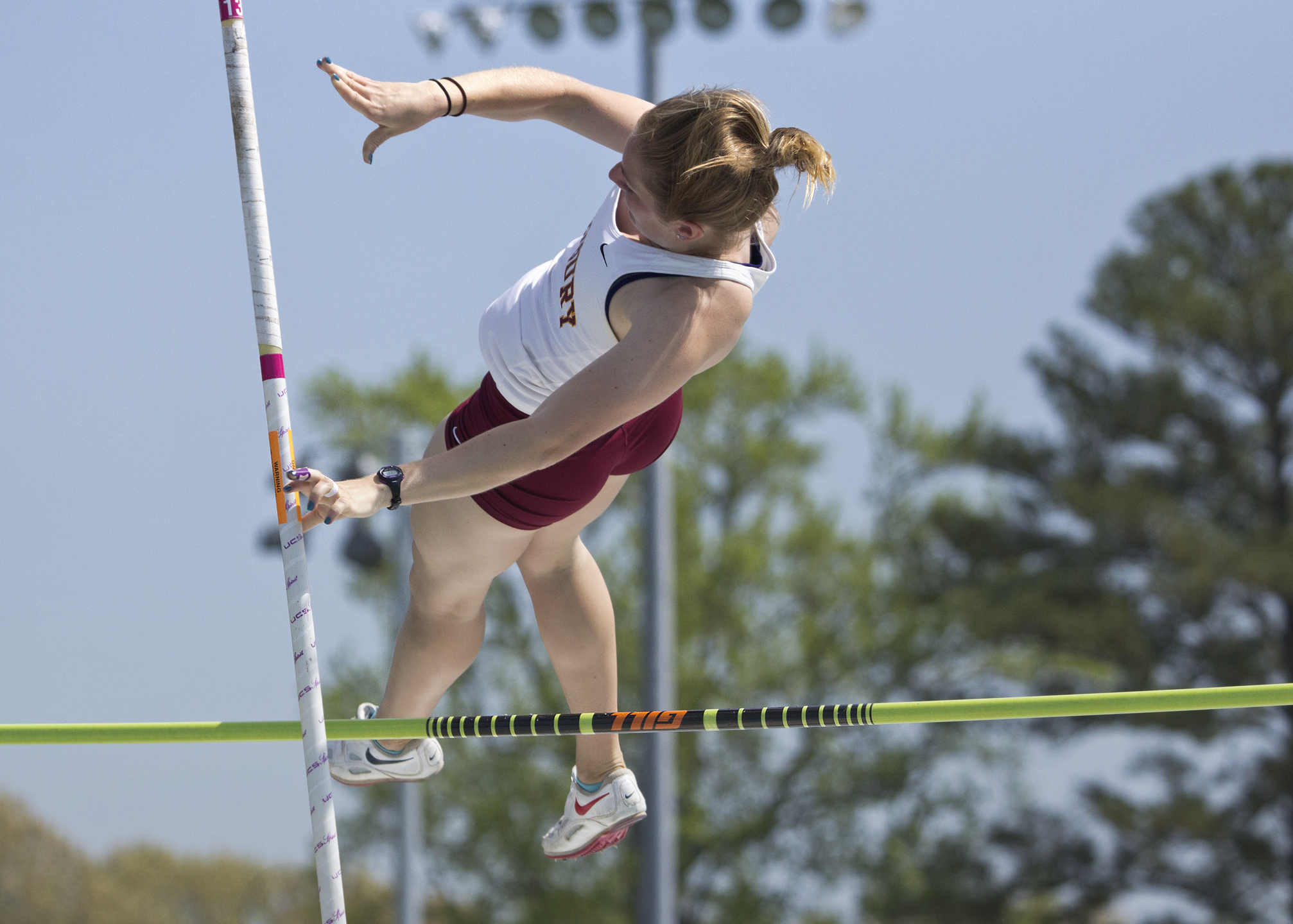 CNU Captains Classic Track and Field meet pole vault